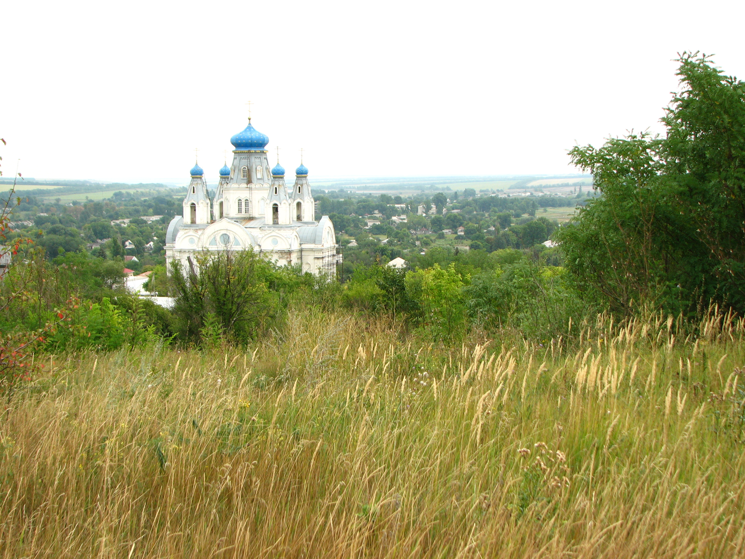 Church in Semykozivka, Luhansk Oblast, Ukraine